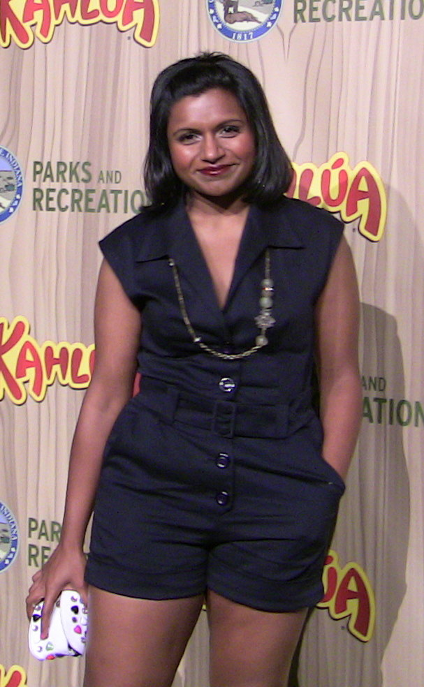 Actress Mindy Kaling at the premiere party of TV series Parks and Recreation